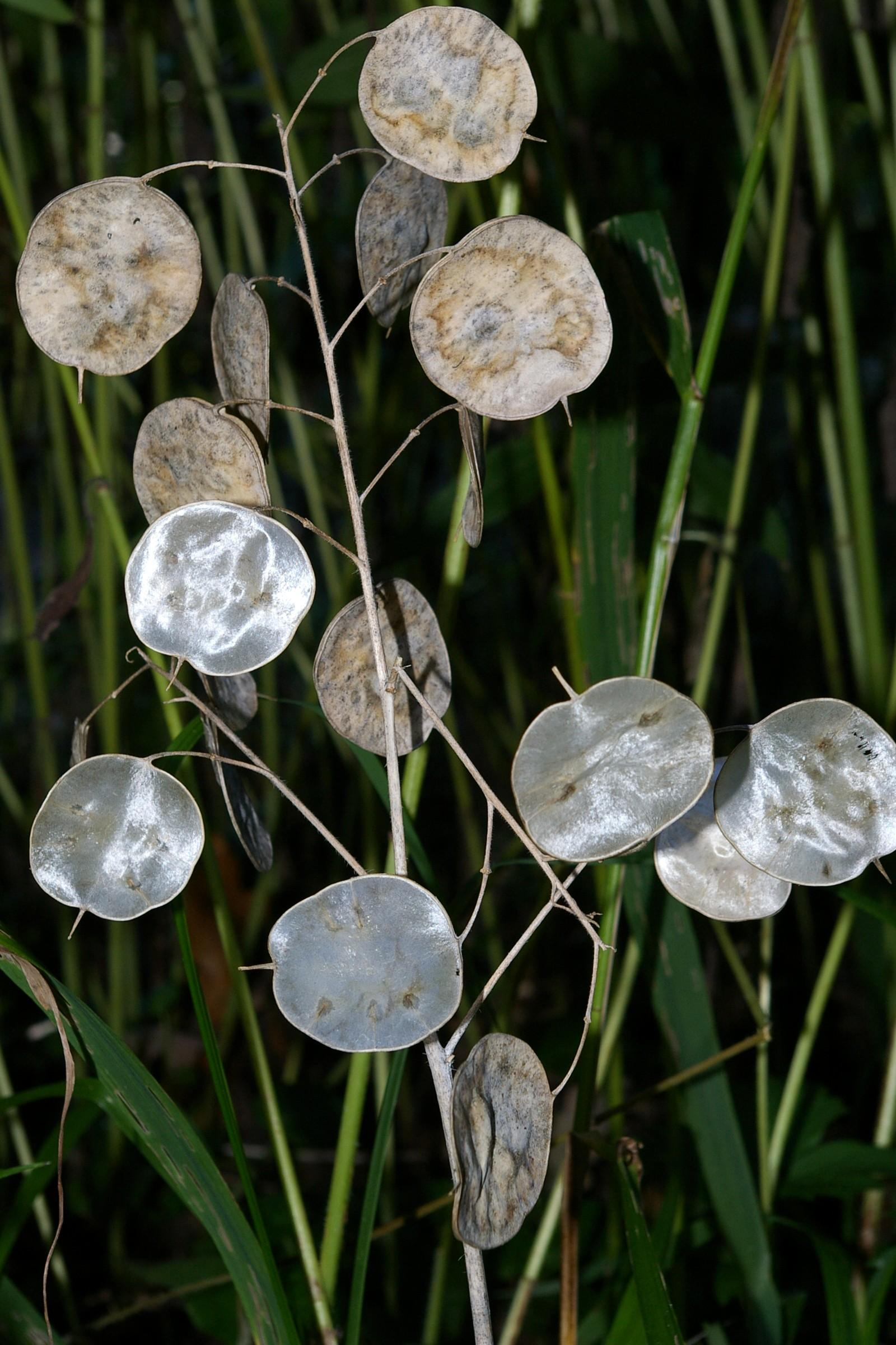 Annual Honesty (Lunaria annua); ripe pods, some still with seed, others without (bright silver ones).